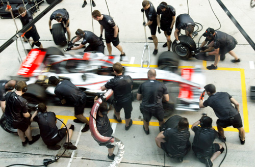 Pit work of McLaren at the 2006 Malaysian Grand Prix